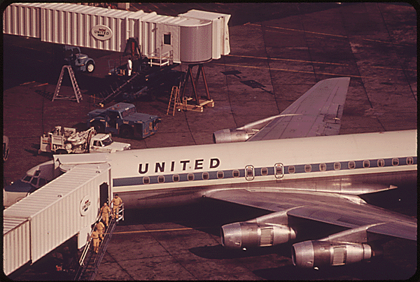 A United Airlines DC-8 at Logan International Airport, 1973. EPA photo.Alternate description: GROUND ACTIVITY AT LOGAN AIRPORT SEEN FROM 16TH FLOOR OBSERVATION DECK